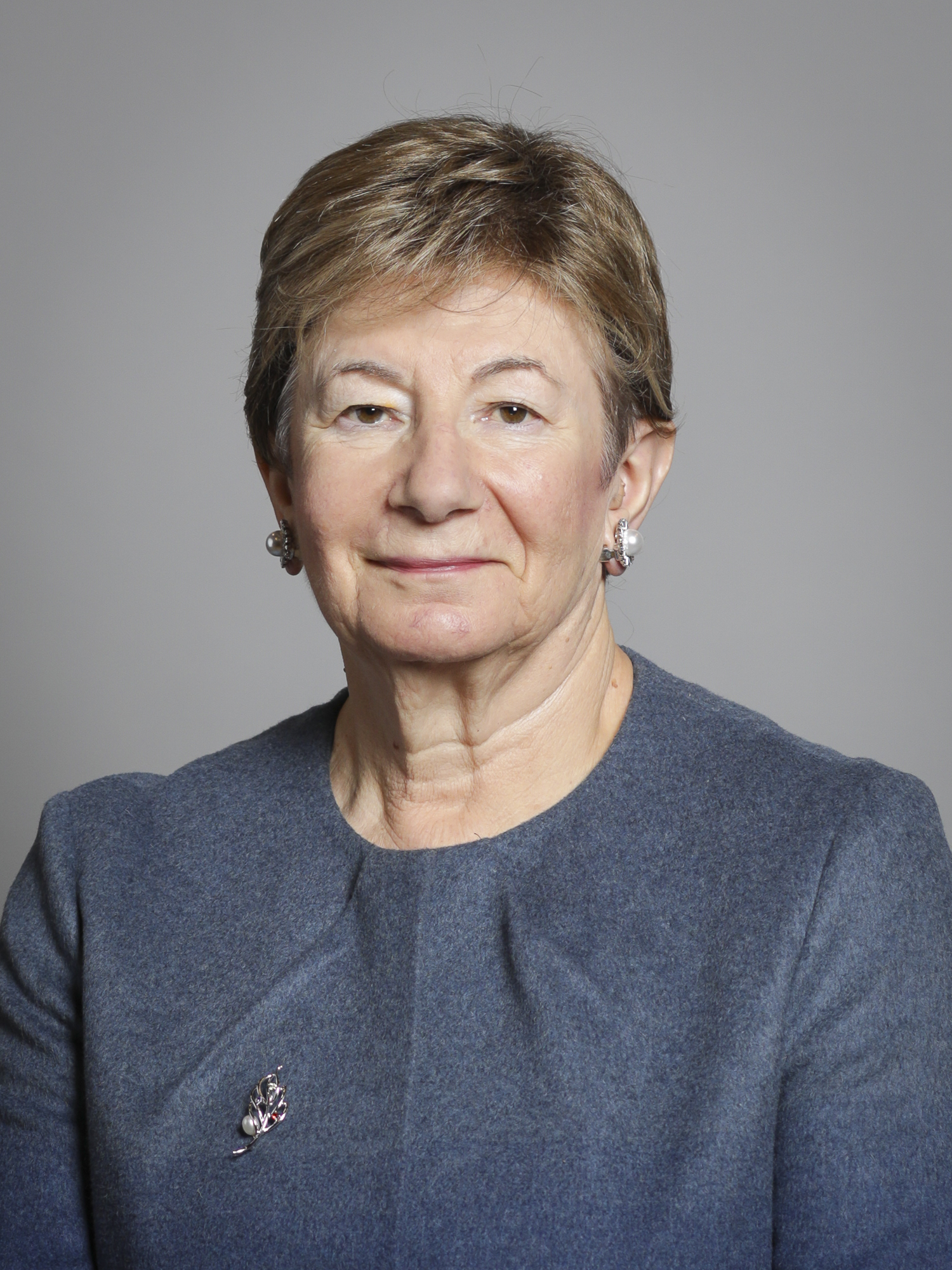 Official portrait of Baroness Deech 3×4 portrait of Baroness Deech